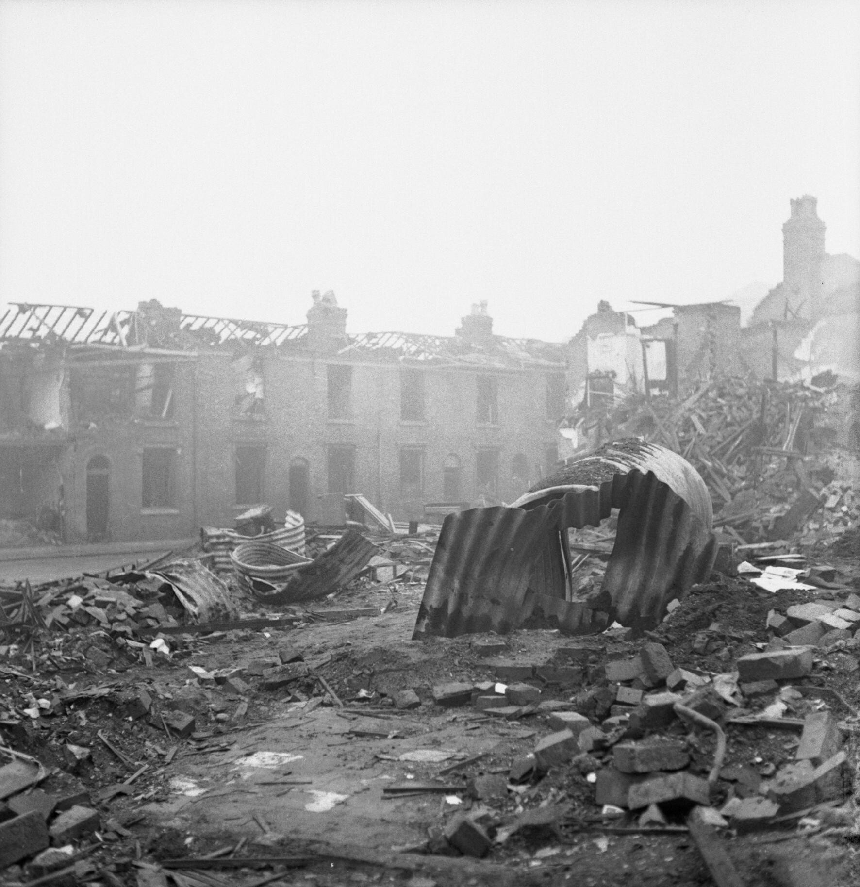 Bomd damage on James Street, Aston Newtown, Birmingham, 1940. Although some debris has been cleared on this site on James Street, Aston Newtown, Birmingham, brick rubble can be clearly seen. Dominating the photograph, however, are the twisted remains of several Anderson shelters, one of which is still standing and intact, although warped. In the background, all the houses in row of terraced homes is missing a roof.